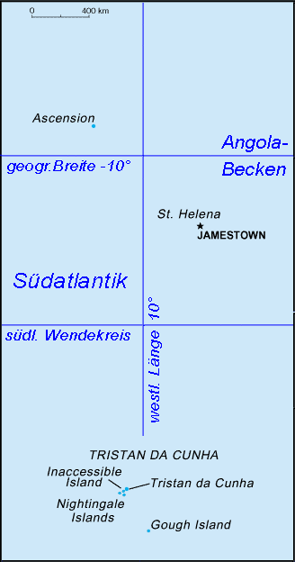 Map of St. Helena (German)